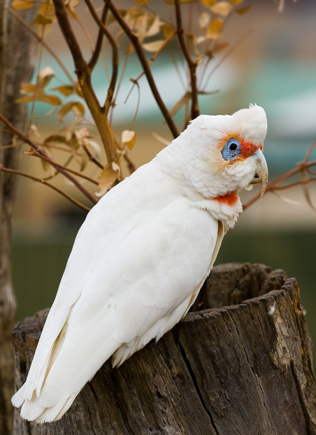 A Perched Long-billed Corella (Cacatua (Licmetis) tenuirostris) Camera data Camera Canon EOS 400D Lens Canon EF 70-200mm f4L Focal length 159 mm Aperture f/4 Exposure time 1/640 s Sensivity ISO 200